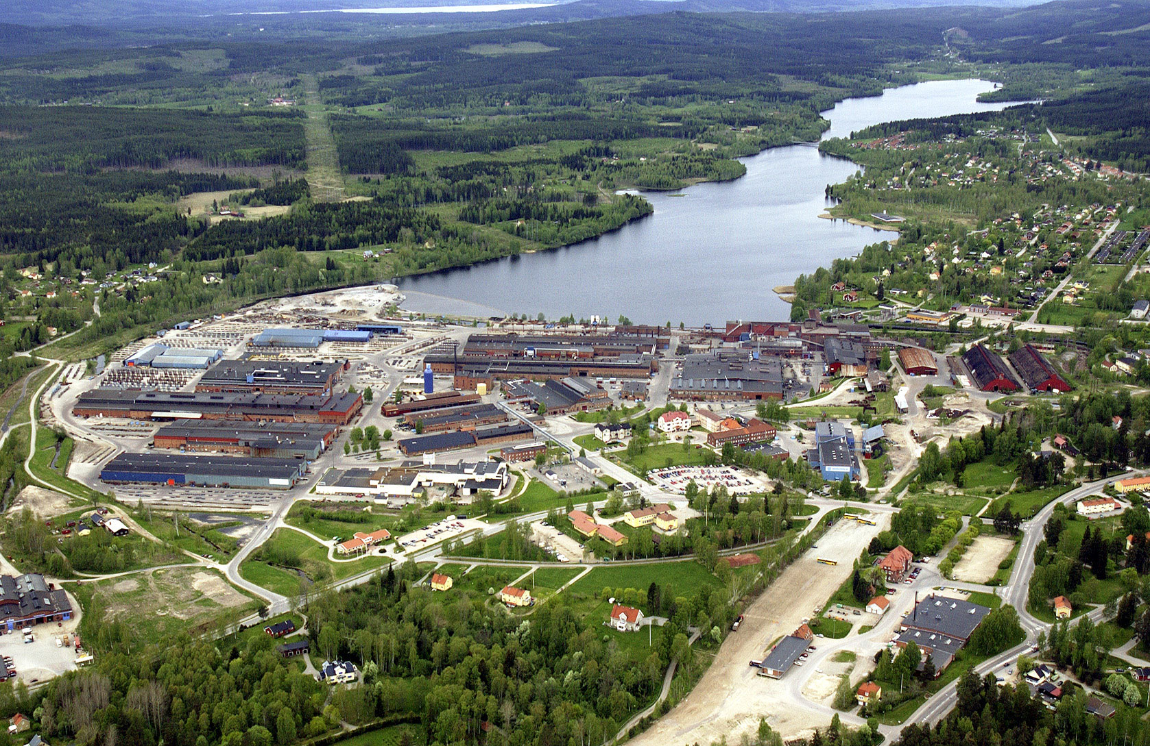 Aerial view of Uddeholms AB.